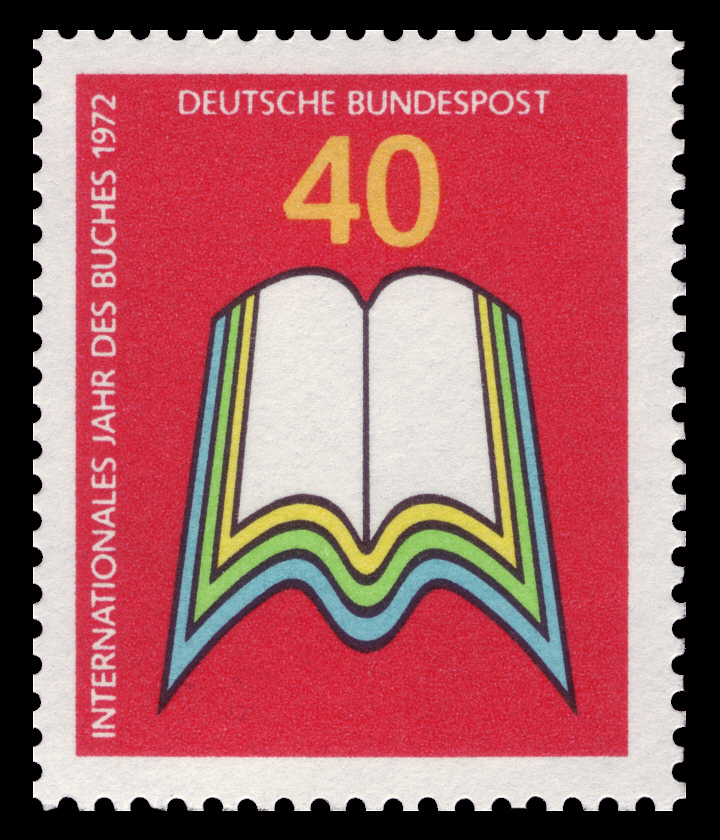 International year of books Graphics by Knoblauch Ausgabepreis: 40 Pfennig First Day of Issue / Erstausgabetag: 11. September 1972 Michel-Katalog-Nr: 740